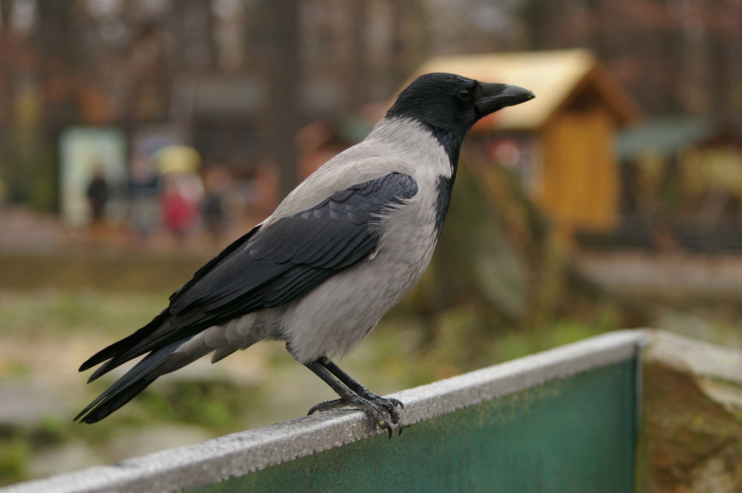 A Hooded Crow in Berlin, Germany.